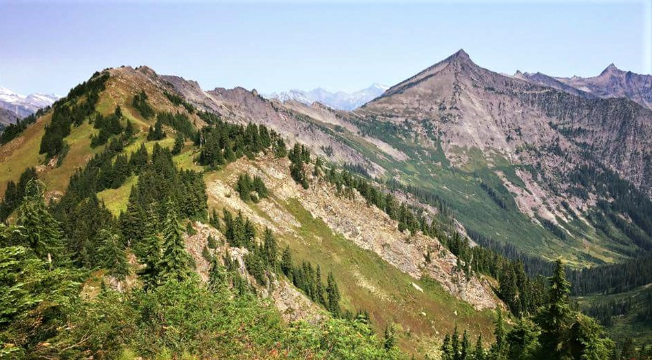 Whittier Peak (southwest aspect) from Poe Mountain